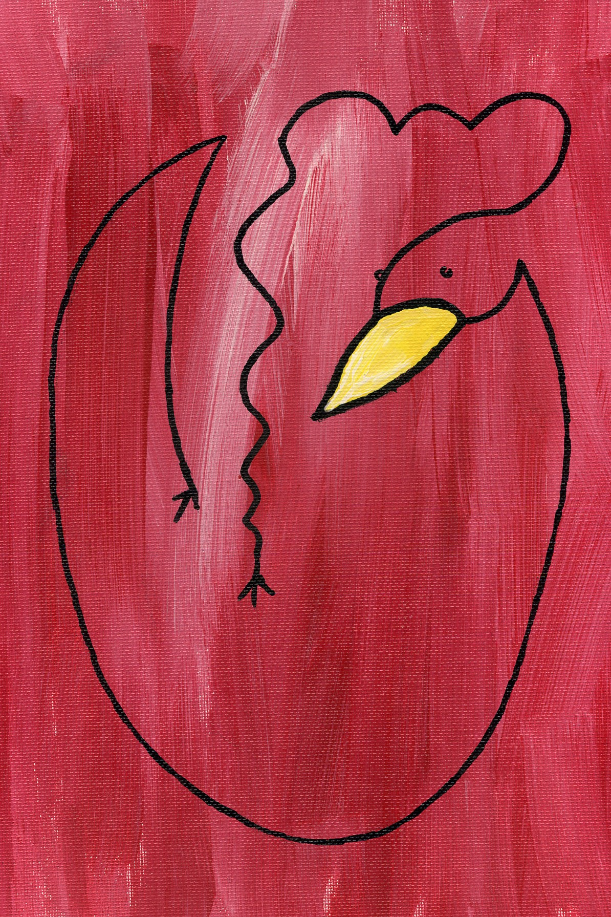 Kindof a visual pun that I've illustrated. Which came first? Technically not a photo, but I did have to physically scan it in, so maybe that counts for something. This is a few years old.